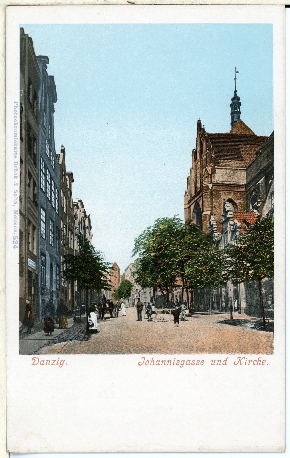 This postcard is from publisher Brück & Sohn in Meißen ( This postcard has a unique number 00524 and is available in a higher resolution at the publisher. This images was uploaded in a cooperation project between Wikipedians and the publisher.